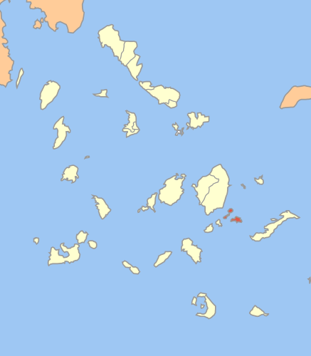 Locator map of Koufonisi communitiy (Κοινότητα Κουφονησίων) in Cyclades prefecture (Νομός Κυκλάδων) in Greece.